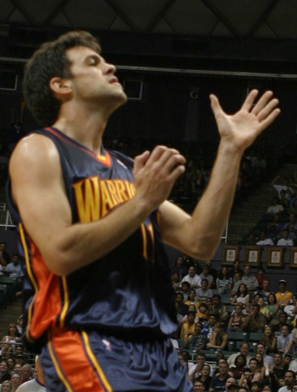 Bryant hangs from the rim after one of several slam dunks during the pre-season game, Tuesday night, at the University of Hawaii.